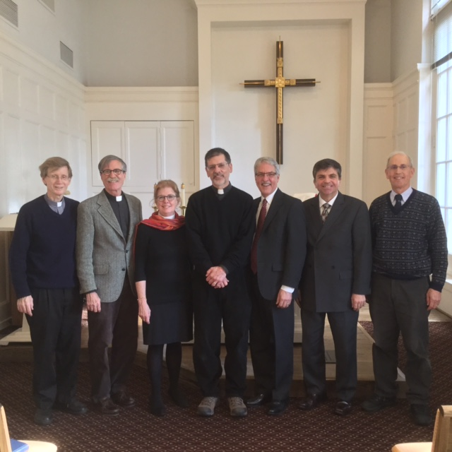 The image depicts the United Methodist event for the March for Life in 2017 that was held in the United Methodist Building, Washington, D.C. This picture was clicked on January 27, 2017.